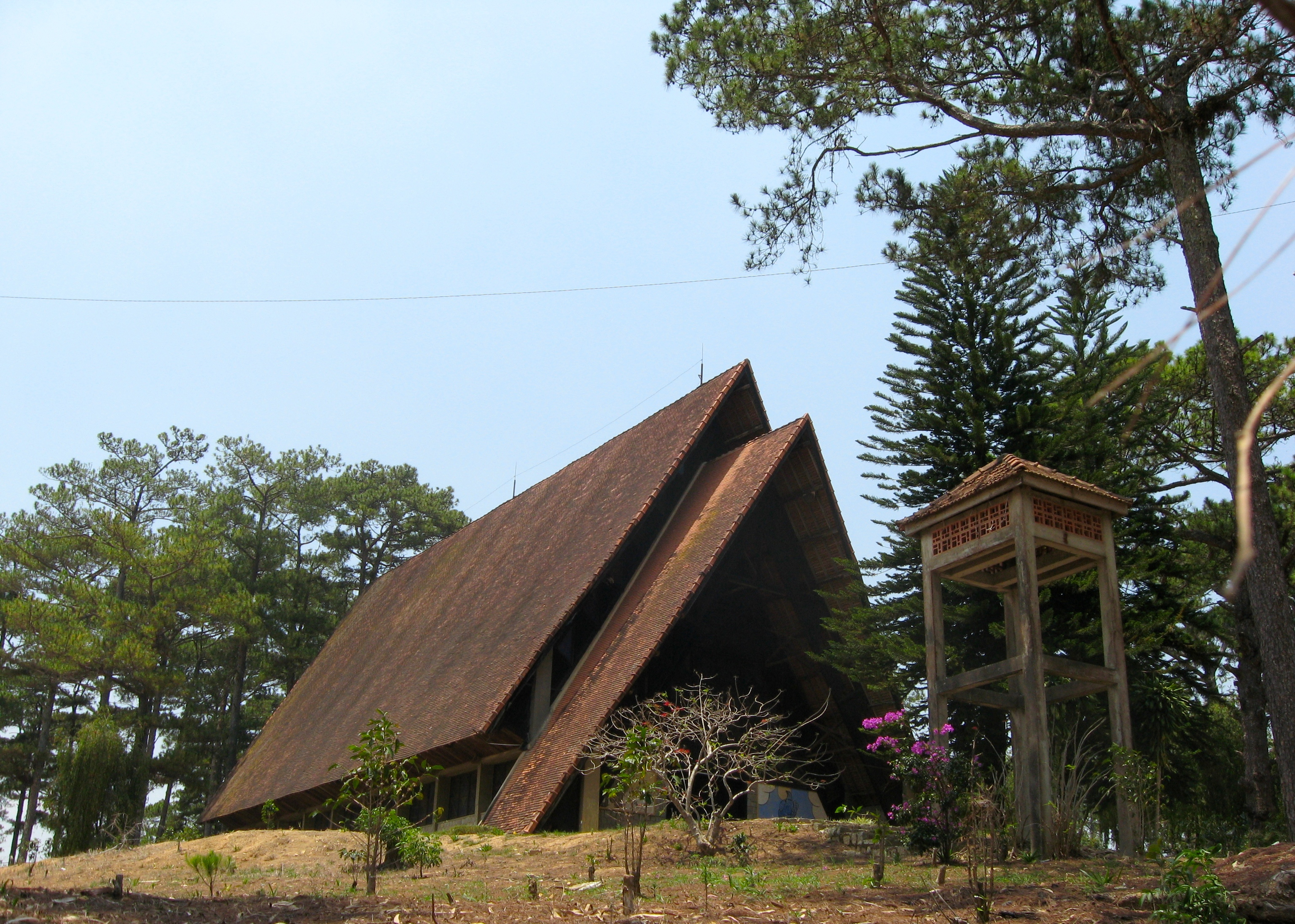 Cam Ly Church